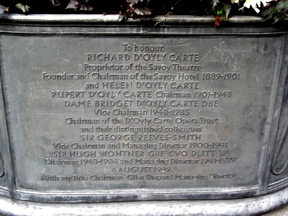 Source: Self - photographed on November 1, 2007 This is a photograph of the planter in the Embankment Gardens in front of the Savoy Hotel commemorating Richard D'Oyly Carte and his family and associates.